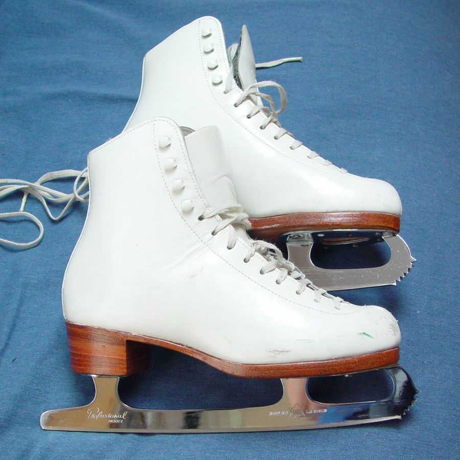 User:Dr.frog's figure skates. This is a Riedell Silver Star boot with an MK Professional blade, a common combination for low-to-mid-level skaters.